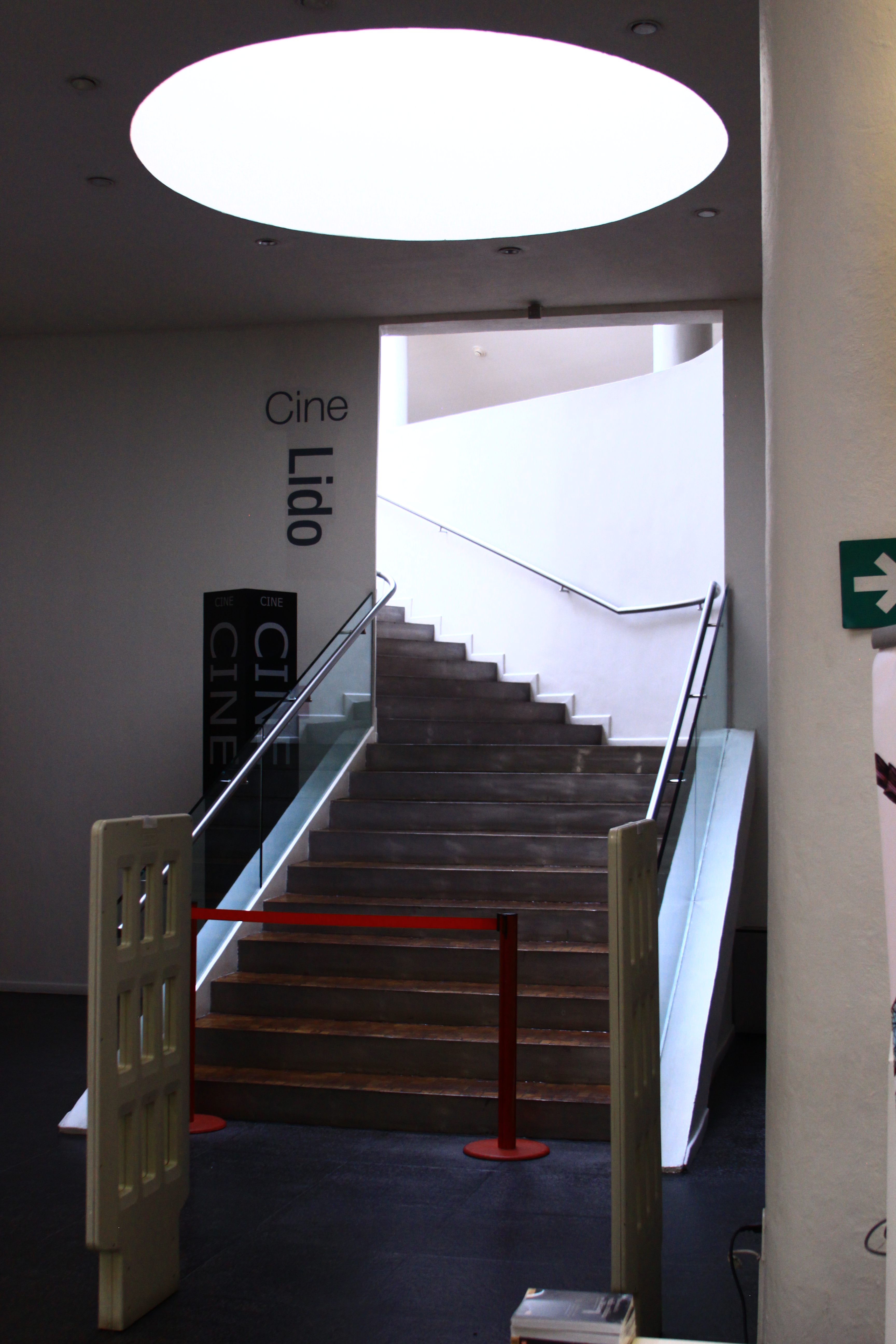 Normal view of the main entrance to the Lido Cinema inside the 'Bella Época' Cultural Centre in the Condesa neighborhood, Mexico City, Mexico